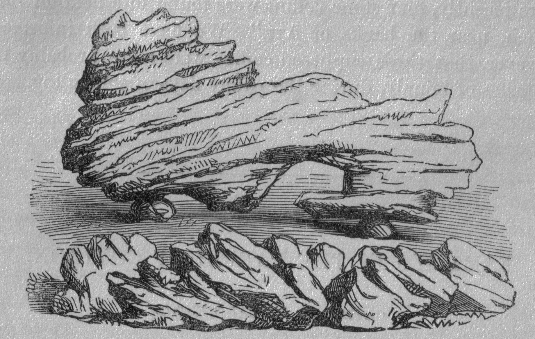 The 'Druidical' rocking or Logan stone at Coylton in Ayrshire.